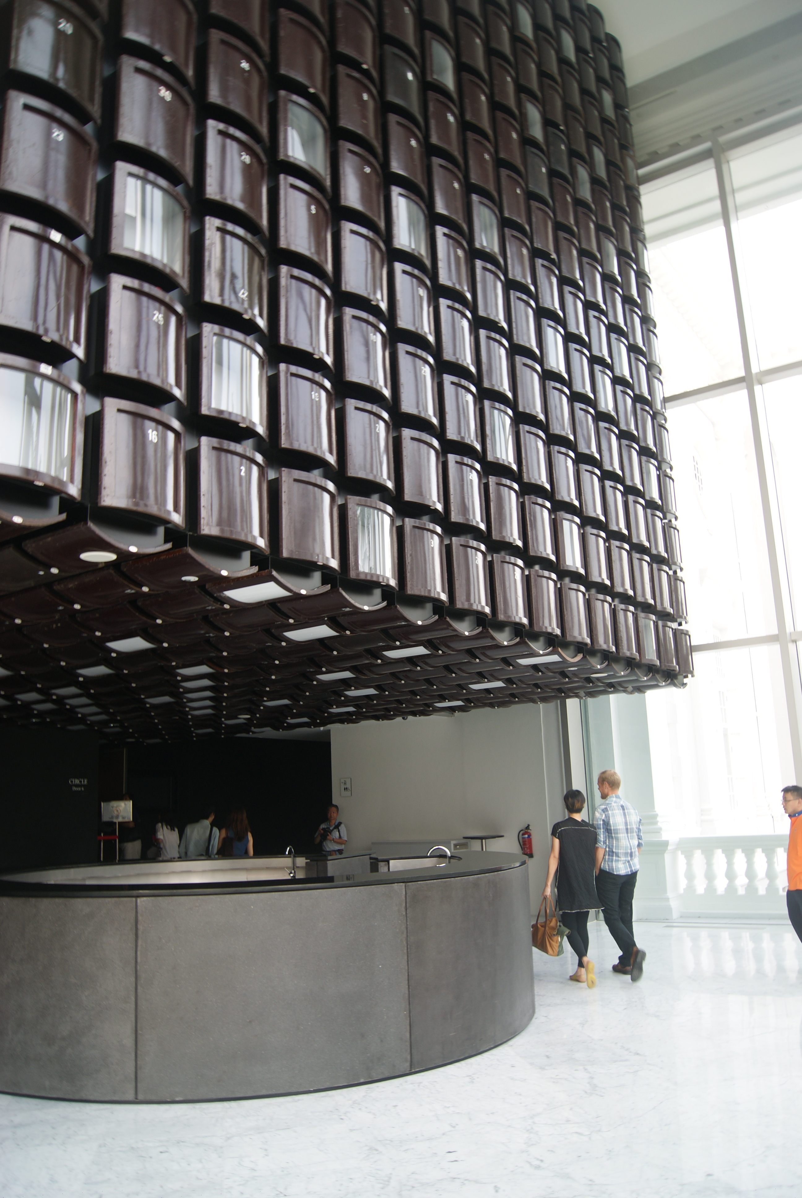 The foyer area of the circle section of Victoria Theatre, Singapore, after it reopened on 15 July 2014 following renovations.